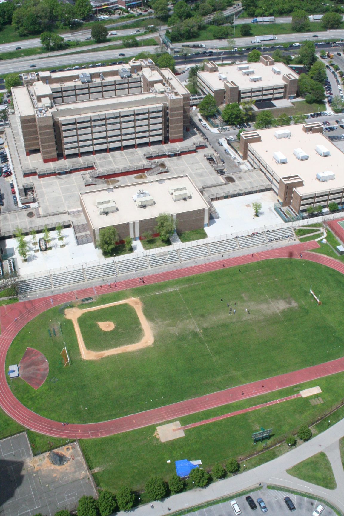 Aerial Image of the Harry S Truman High School in Bronx, NY